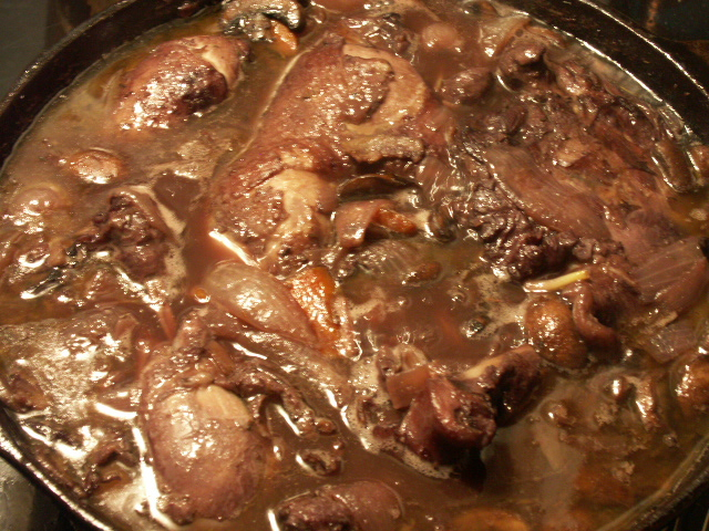 A cooked coq au vin Photo by: user:gene.arboit